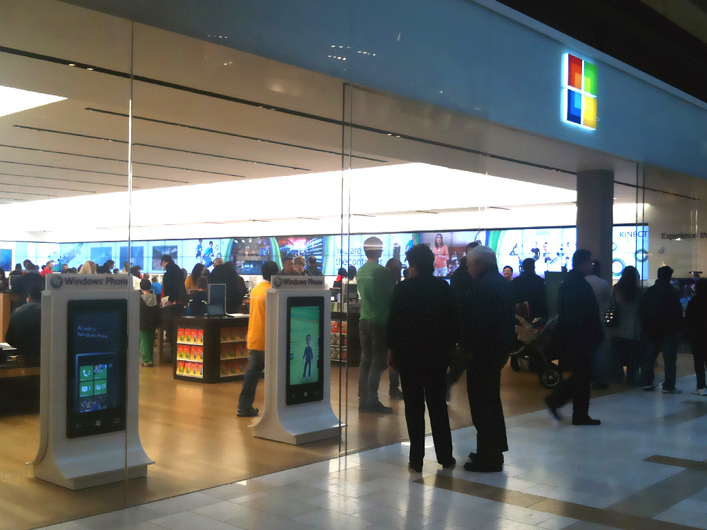 Microsoft store at Bellevue Square